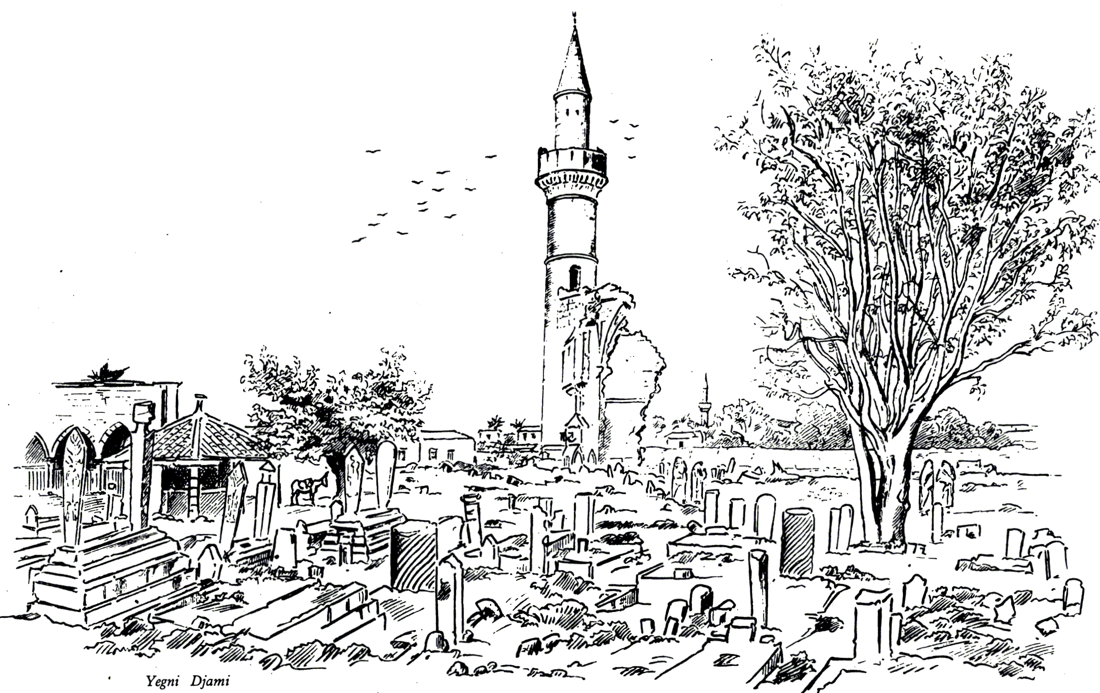 Sketch of Yeni Jami (new mosque) in Nicosia, by Louis Salvator in 1873